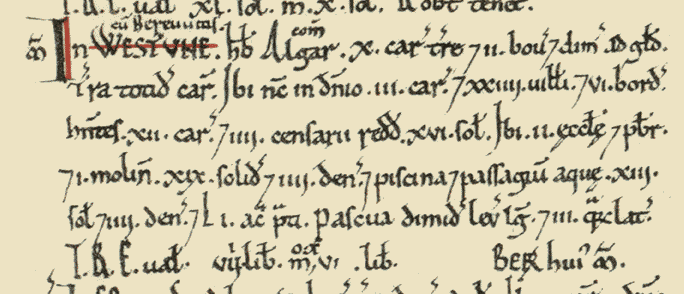 Domesday - extract that shows Weston on Trent in Derbyshire